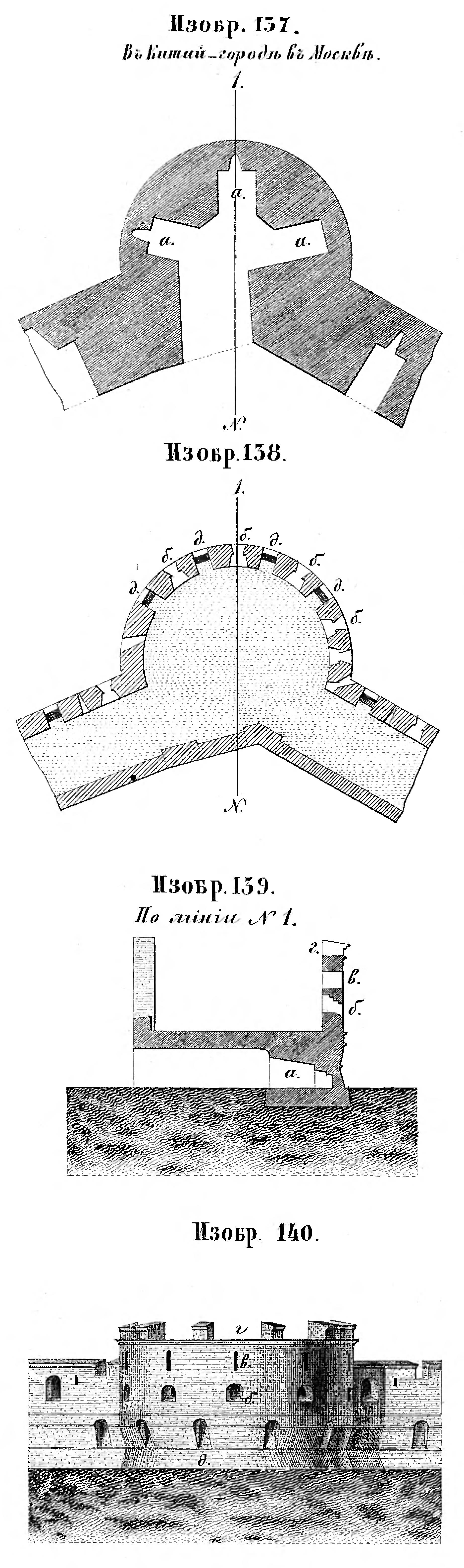 Bird tower of Kitai-gorod in Moscow.